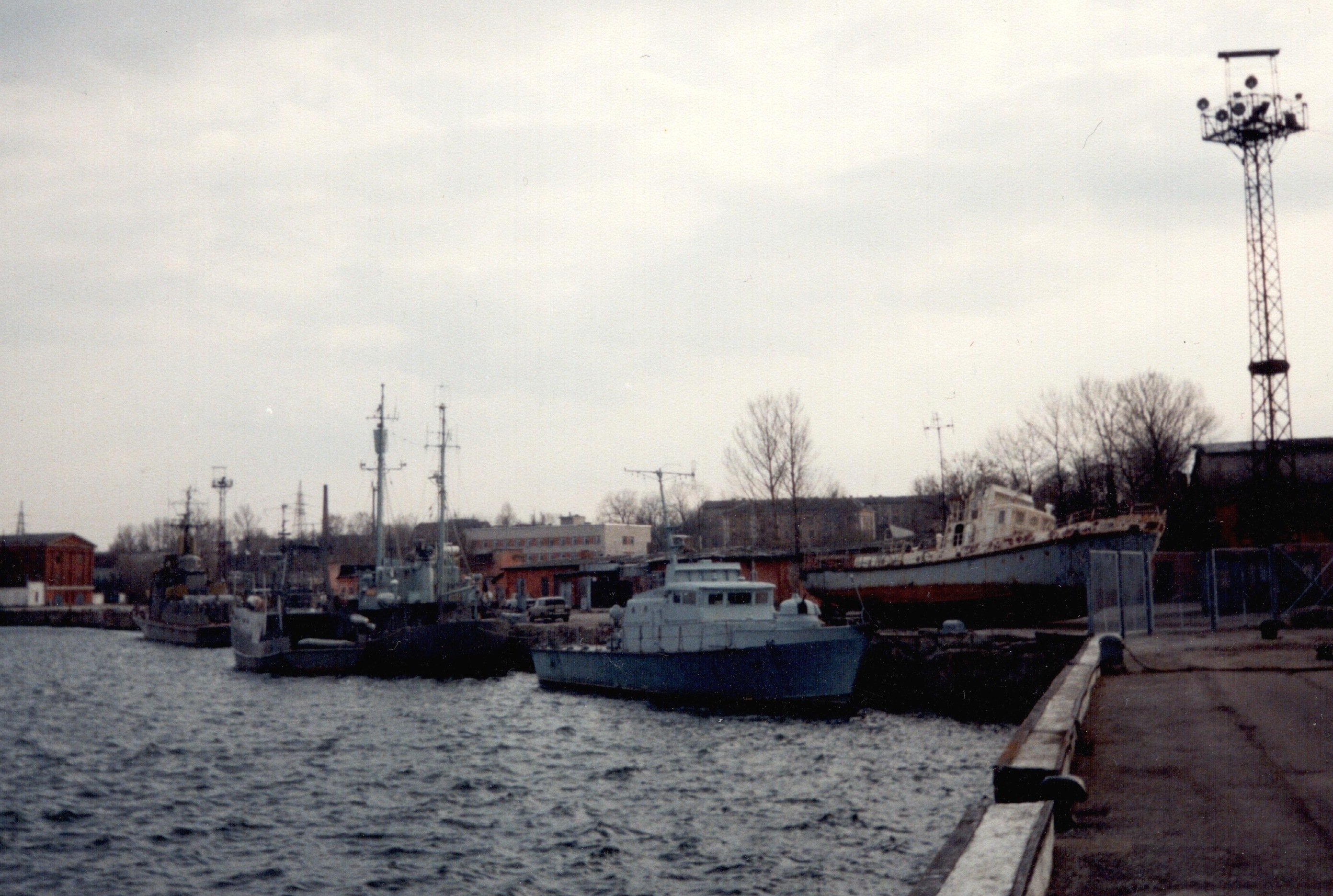 Estonian Navy ships in Tallinn Miinisadam harbour about 1995. From left: Kondor-class ship, auxiliary ship (former fishing ship), Maagen-class ship, Zhuk-class boat, Po-2-class boat (on the shore).